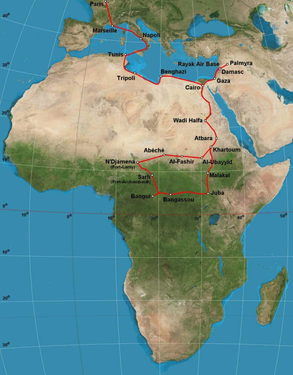 Route of Bănciulescu and Bibescu's raid in Africa, 1935